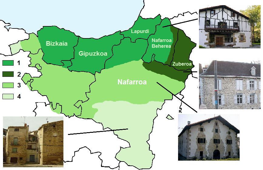 1: Atlantic : Stone and wooden frames with the ridge of the gabled roof over the middle of the main façade. 2: Pyrenean : Houses of stone sometimes with hipped and very steeply inclined roofs. 3: Central : Stone construction with gabled roof whose eaves often run along the main façade. 4: Southern : by the use of stone in part, also of earth, bricks, adobe and mud walls, often with a single-pitched roof with slight incline.